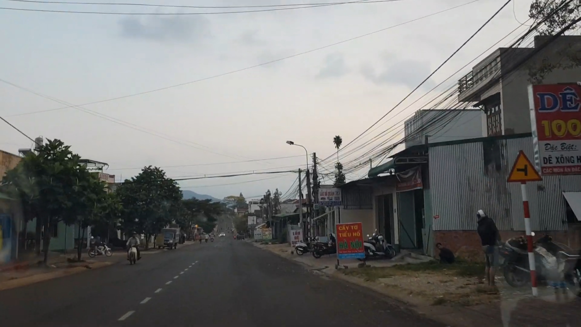 Bao Loc City, Lam Dong Province, Vietnam, 2019